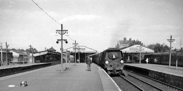 Basingstoke Station. View eastwards, towards London on the Fast lines platforms. A typical Down express of the time -- a Summer Saturday Relief from Waterloo to Bournemouth, headed by a 'West Country' class 4-6-2, stands ready to proceed. (My 'train-spotter's bag' features bottom left).